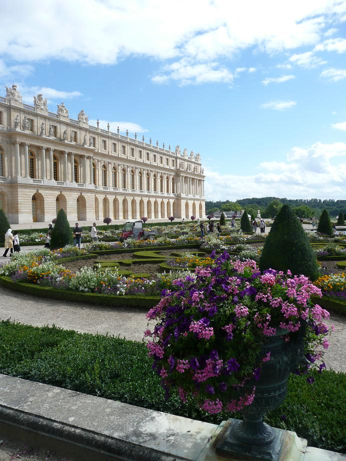 Palace of Versailles